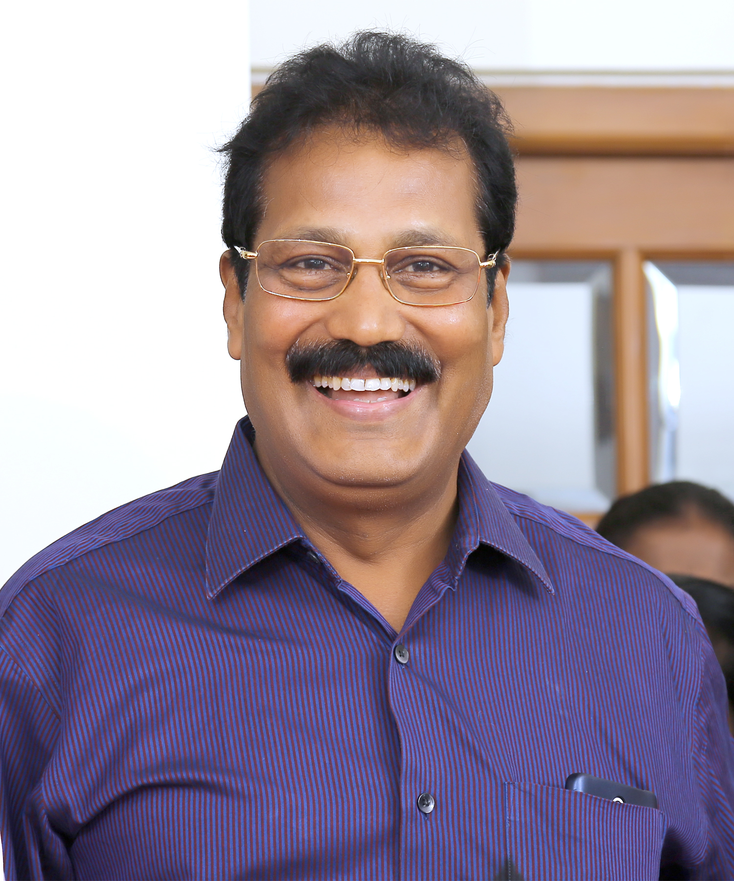 Dr.K.Krishnasamy's Portrait